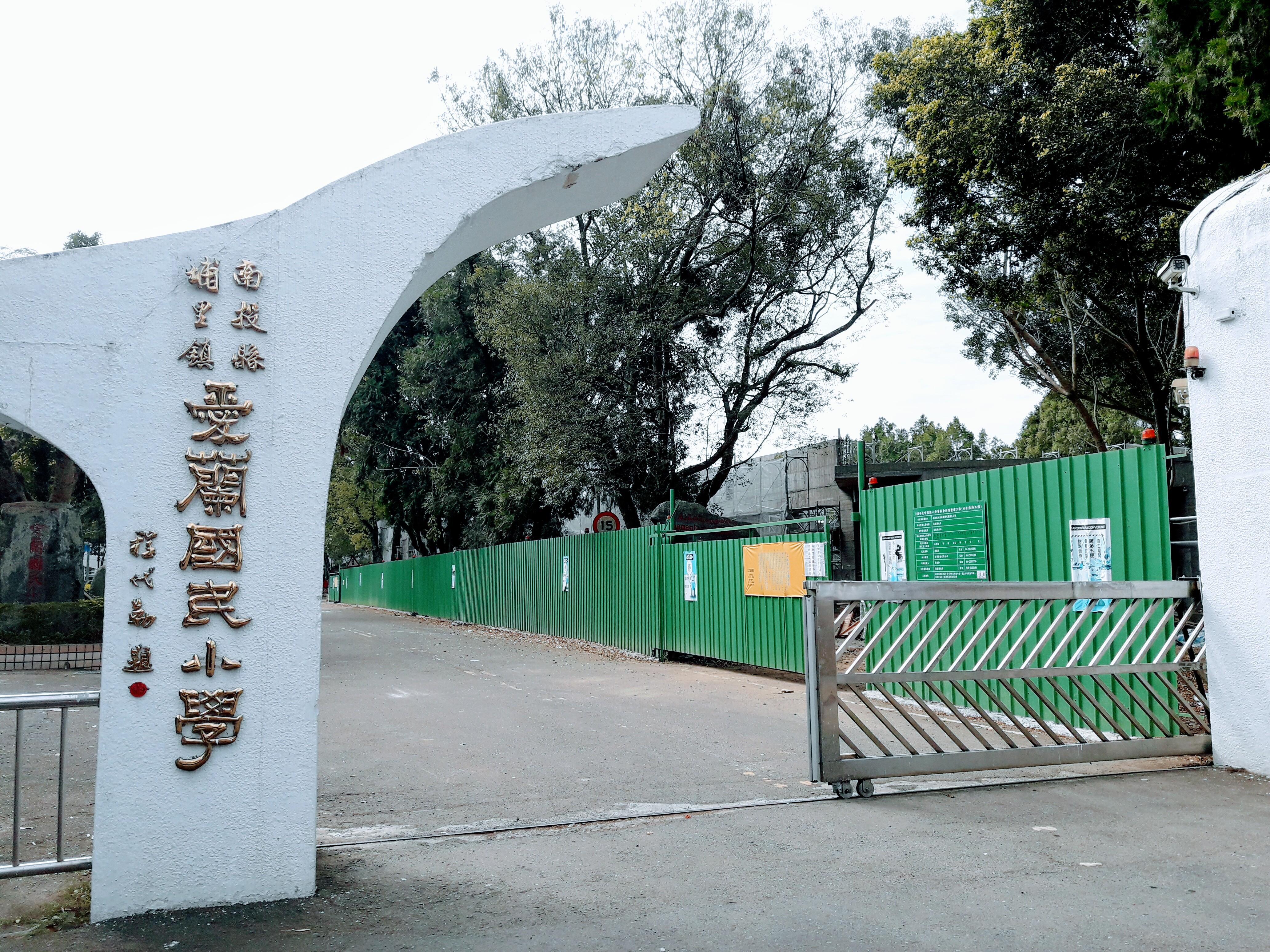 Nantou County Puli Township Ailan Elementary School.